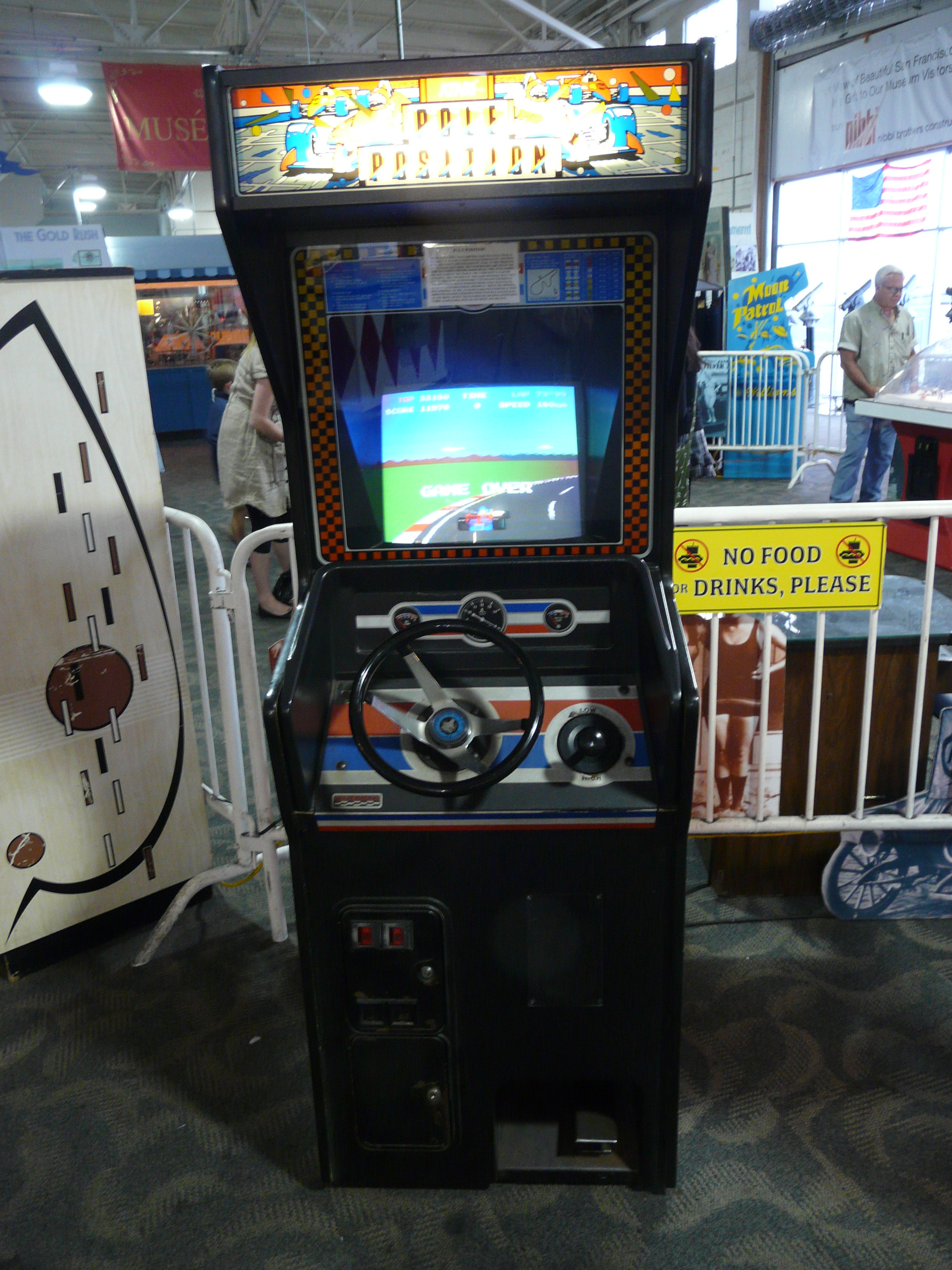 Pole Position, arcade game, upright cabinet.